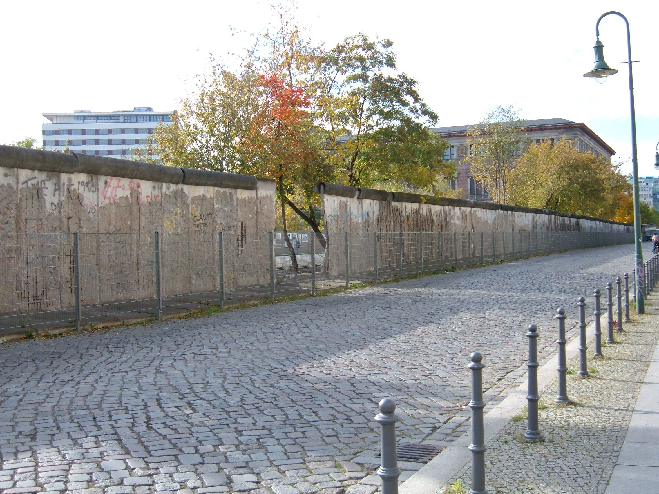 A section of the Berlin Wall at Niederkirchnerstraße in Berlin, Germany.